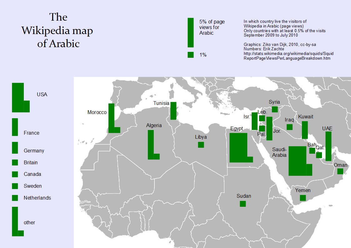 The Wikipedia map of Arabic.